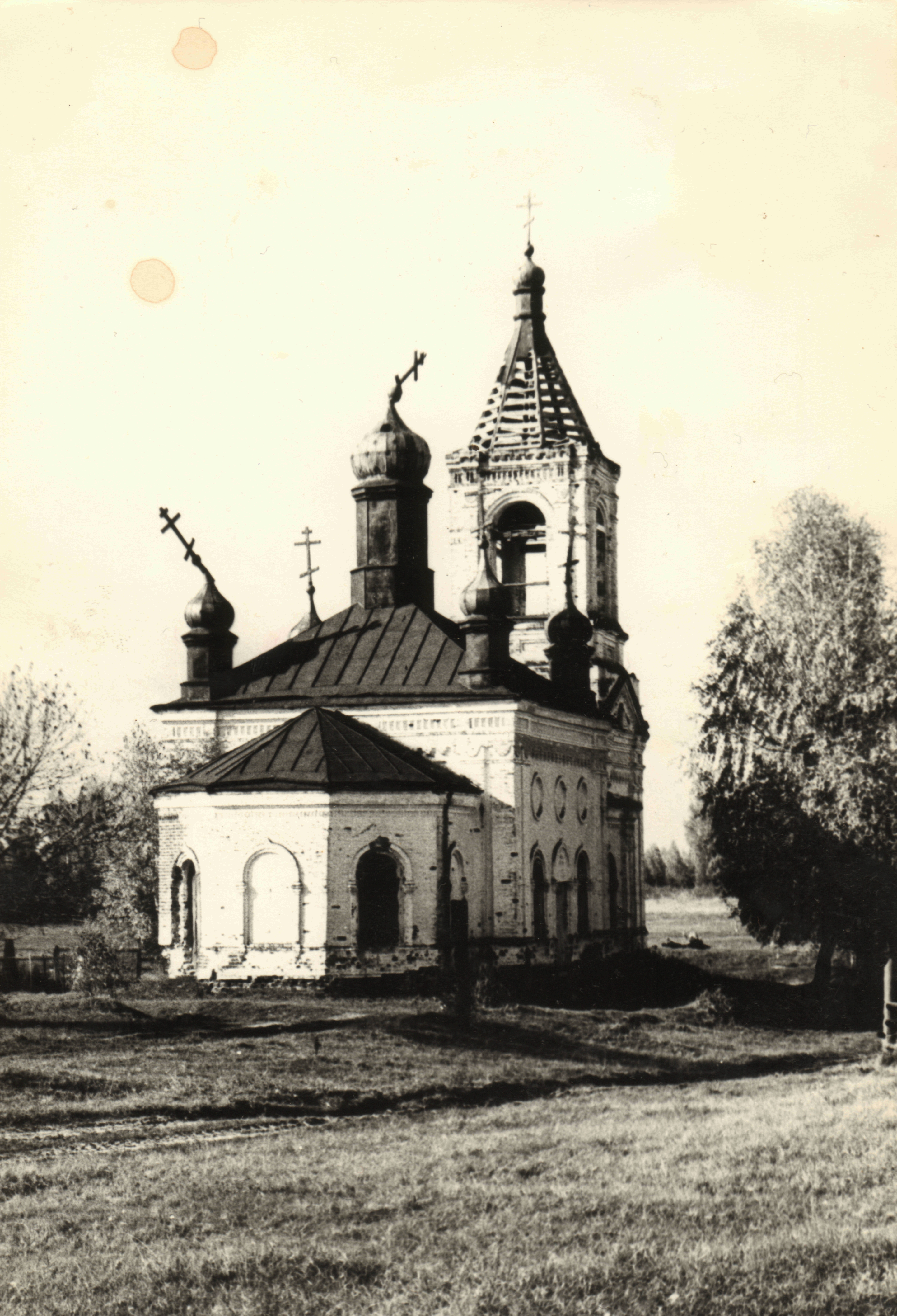 Rusino Hram